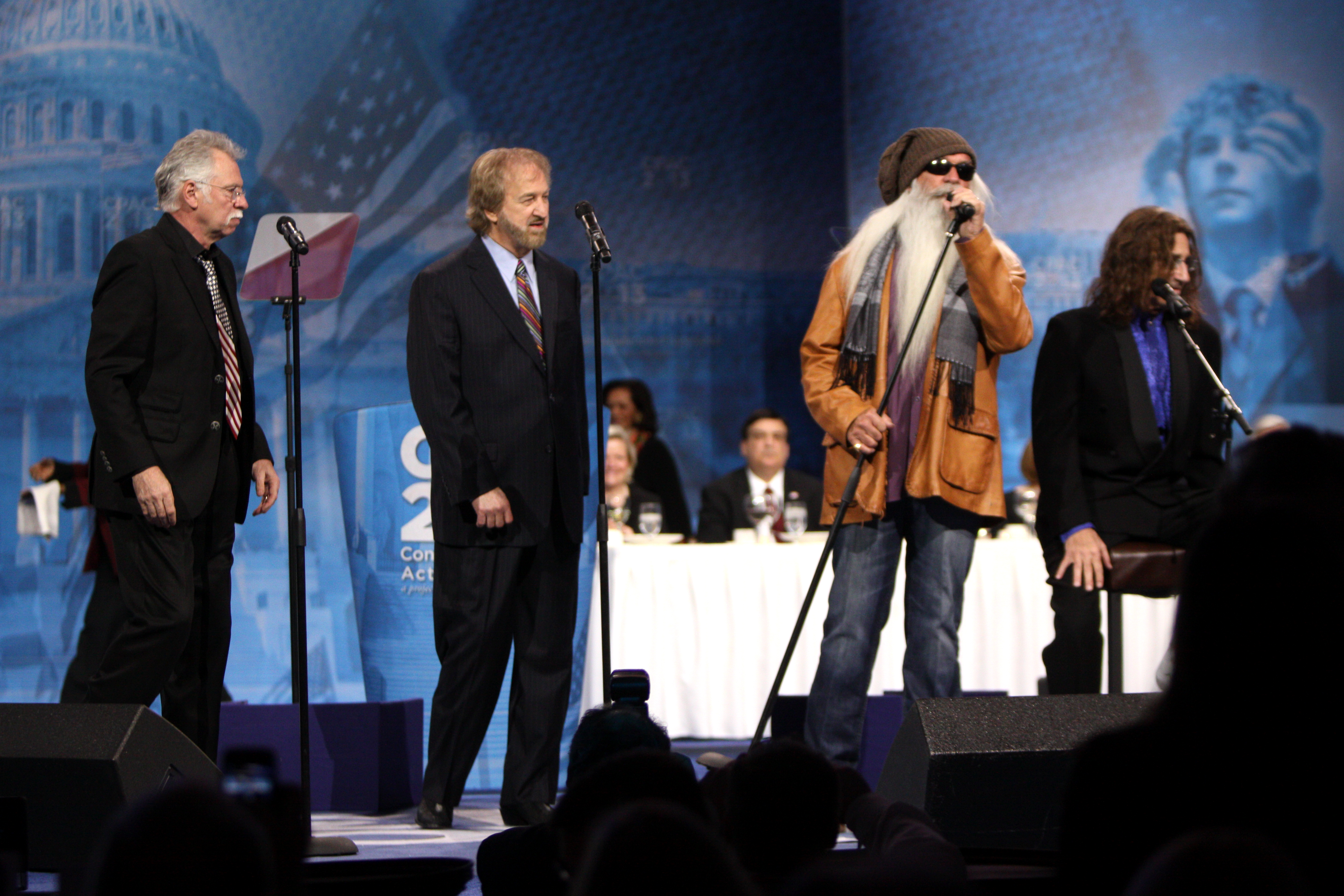 The Oak Ridge Boys performing at the 2013 Conservative Political Action Conference in National Harbor, Maryland.